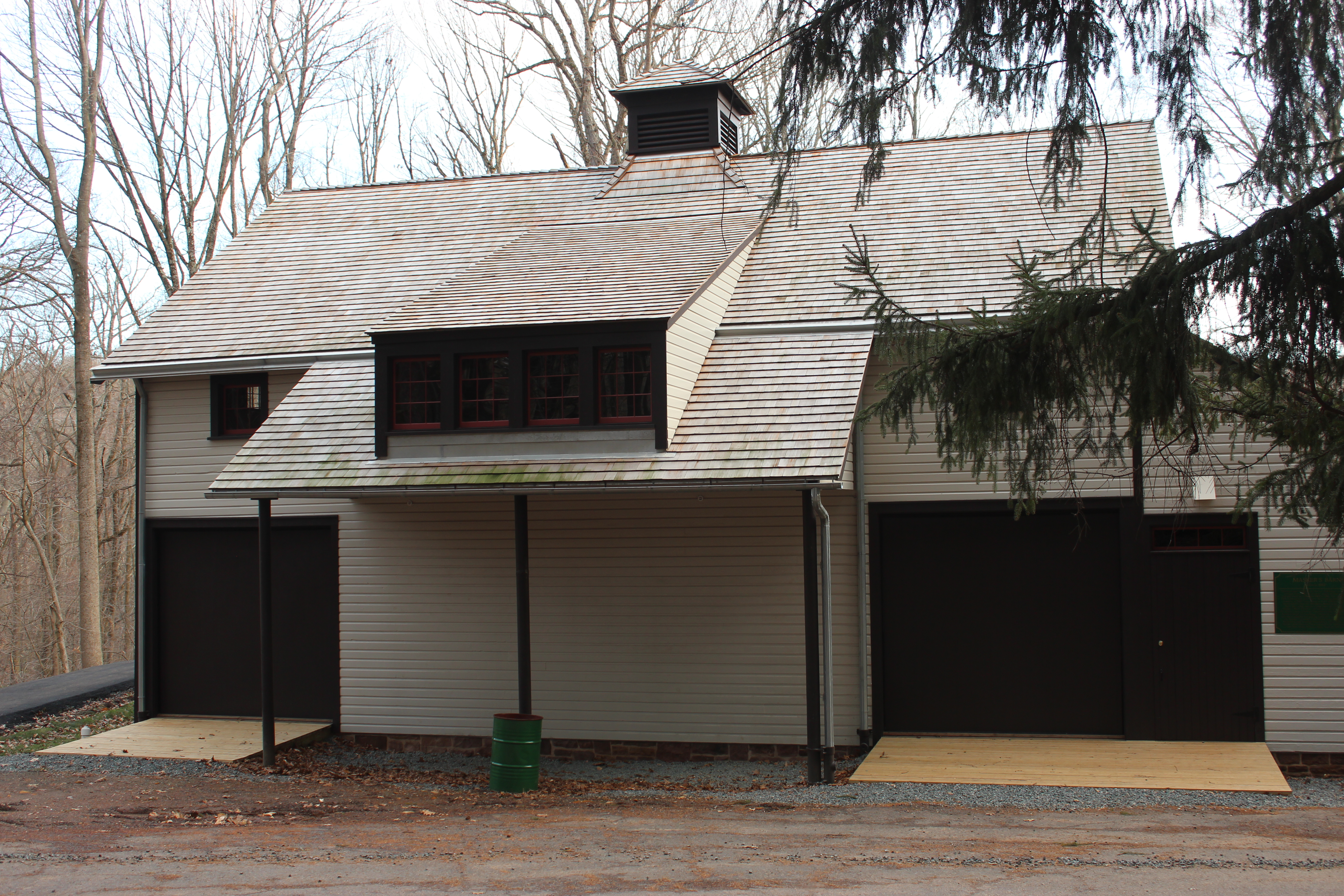 Masker's Barn (1882) used to be the carriage house of Warren Ackerman's Glenside Park summer resort is part of the Watchung Reserve since 1927. It was used as a cafeteria and lecture hall from 1966 - 1984. The barn was completely restored in September 2011.